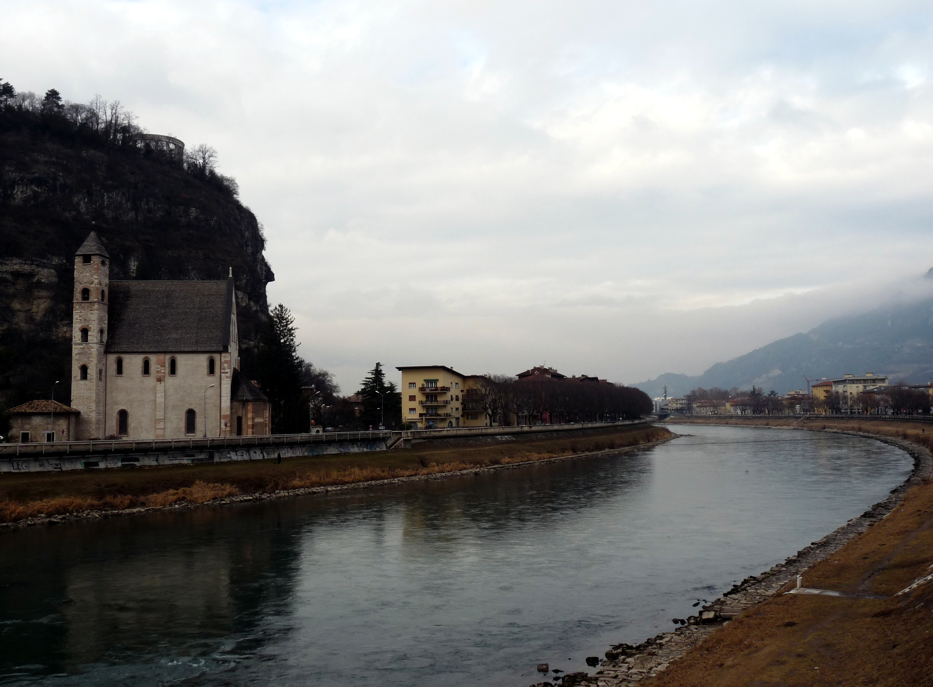 Trento (Italy): the Adige river near Doss Trento, with the Sant'Apollinare church on the left